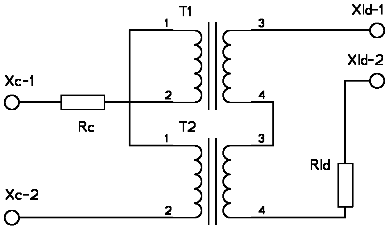 Series connected transductor, i.e. pair of identical transductor cores with identical, series connected load windings. This is one of the basic magnetic amplifier circuits. This circuit schematic drawing was created with gEDA Schematic Editor.